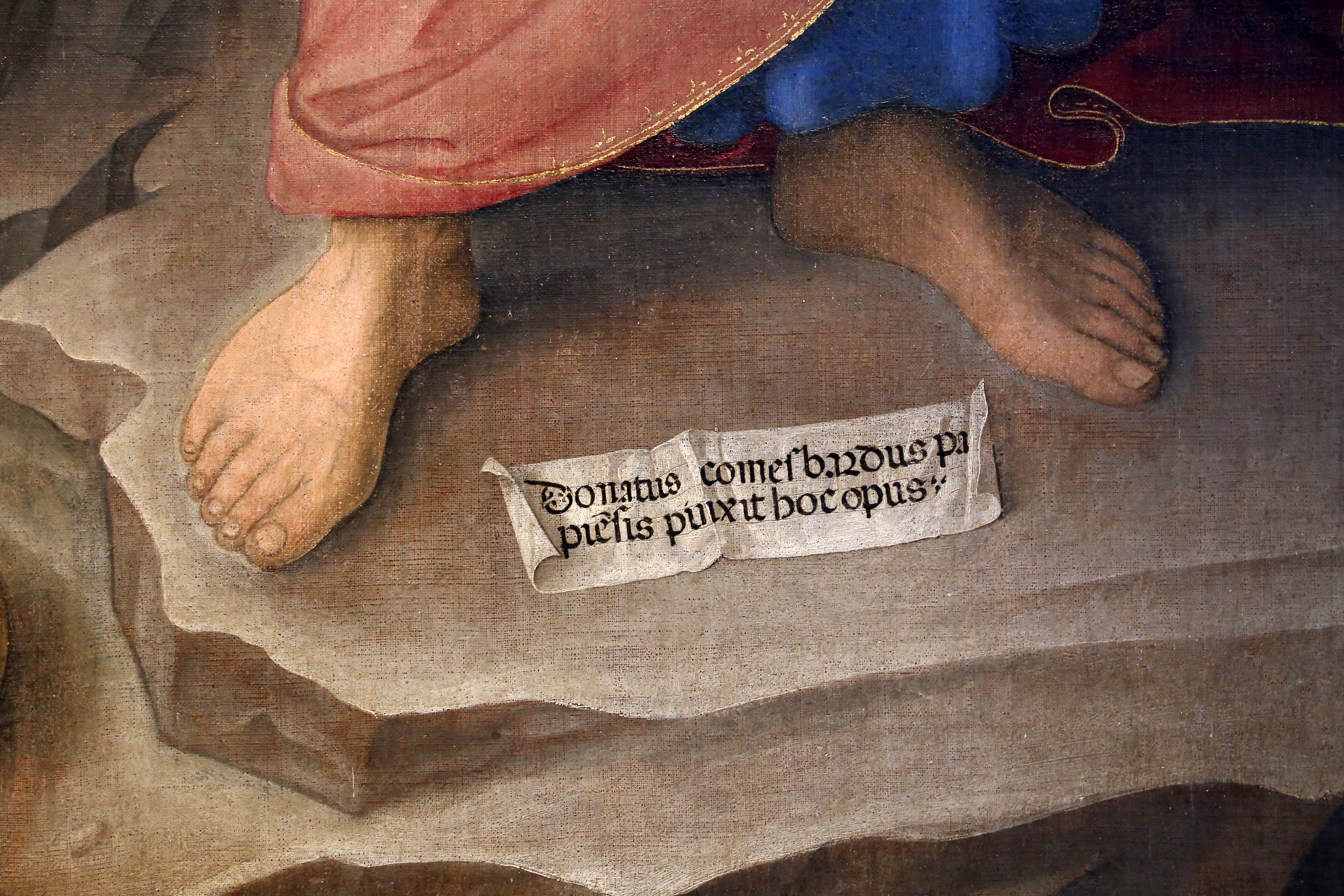 Savona Crucifixion by Donato de' Bardi